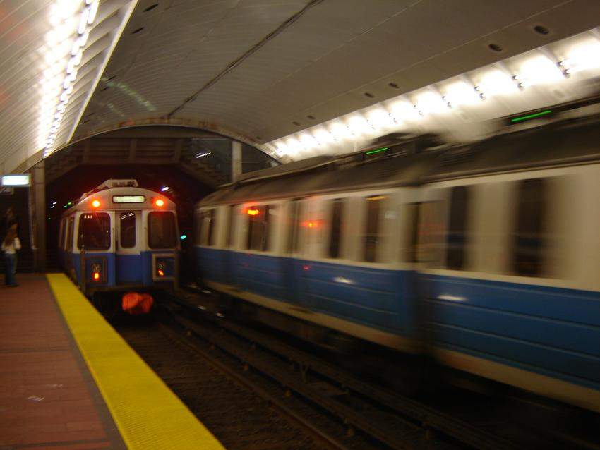 Two Blue Line trains at the east end of Aquarium station in February 2005. The train at left is inbound (headed to Bowdoin).